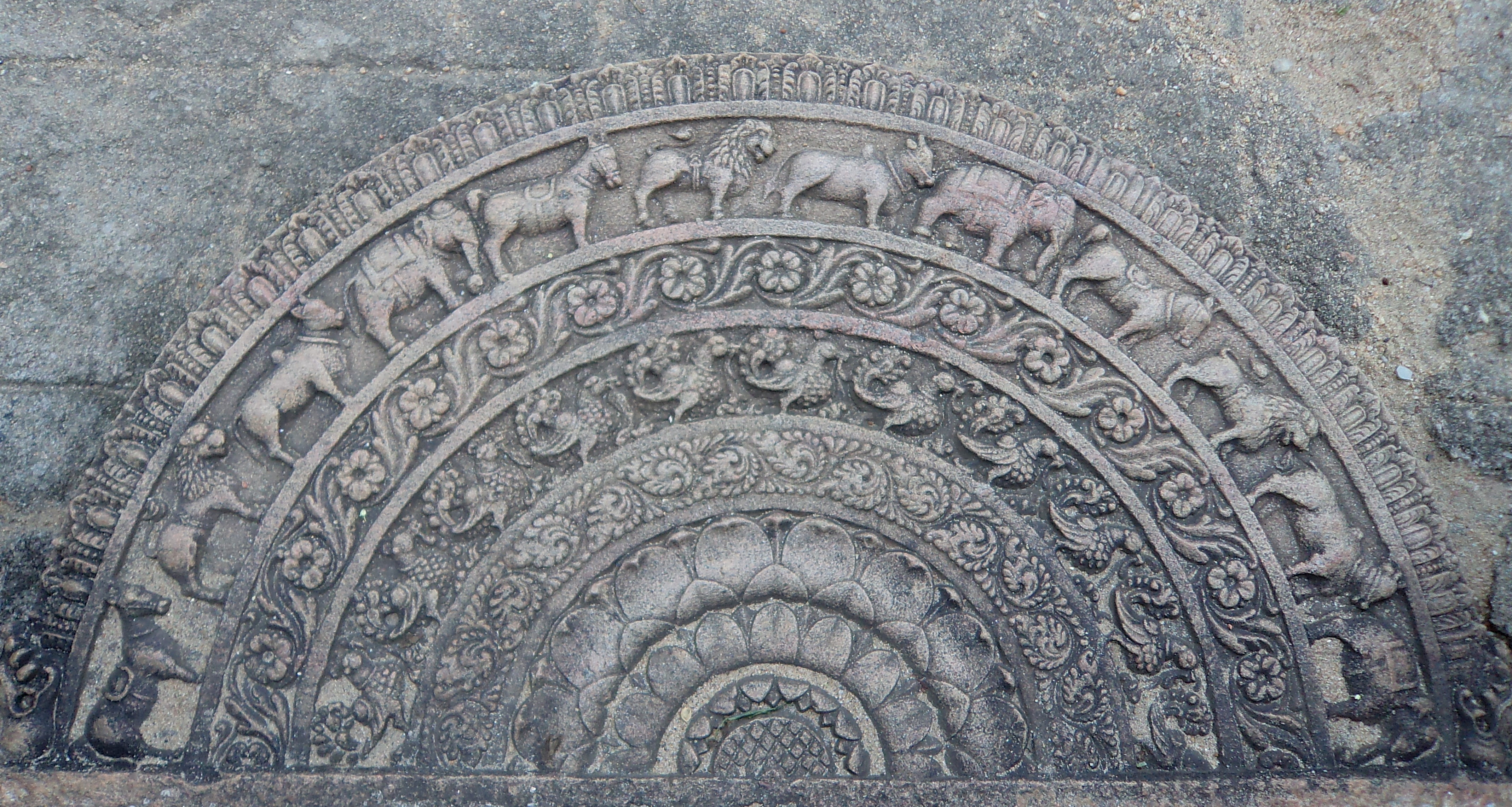 Sandakada pahana at Ridi Viharaya, Kurunegala, Sri Lanka